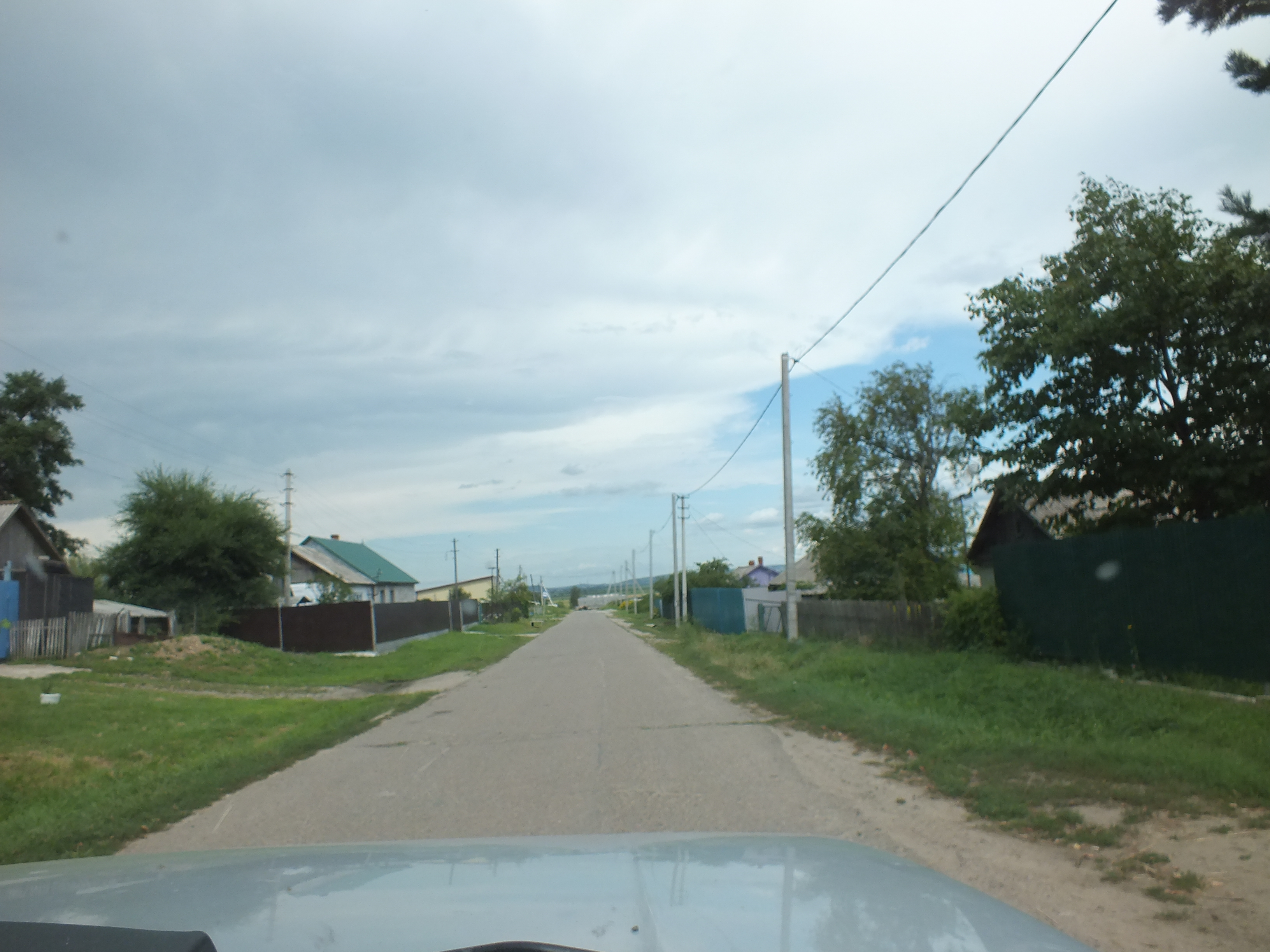 Linevichi Primorskiy kray